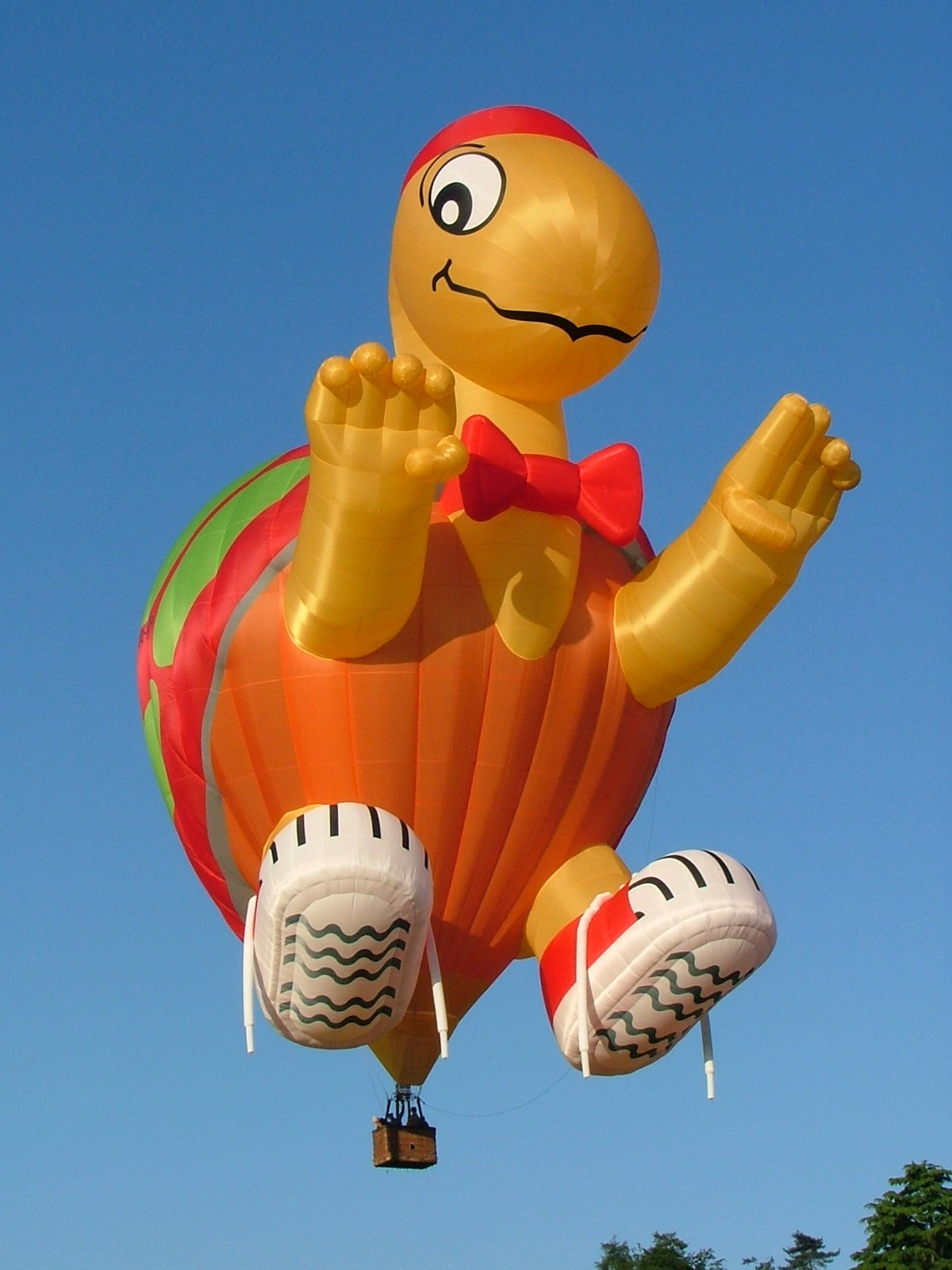 Mister Bup of Ferrara Balloons Festival.